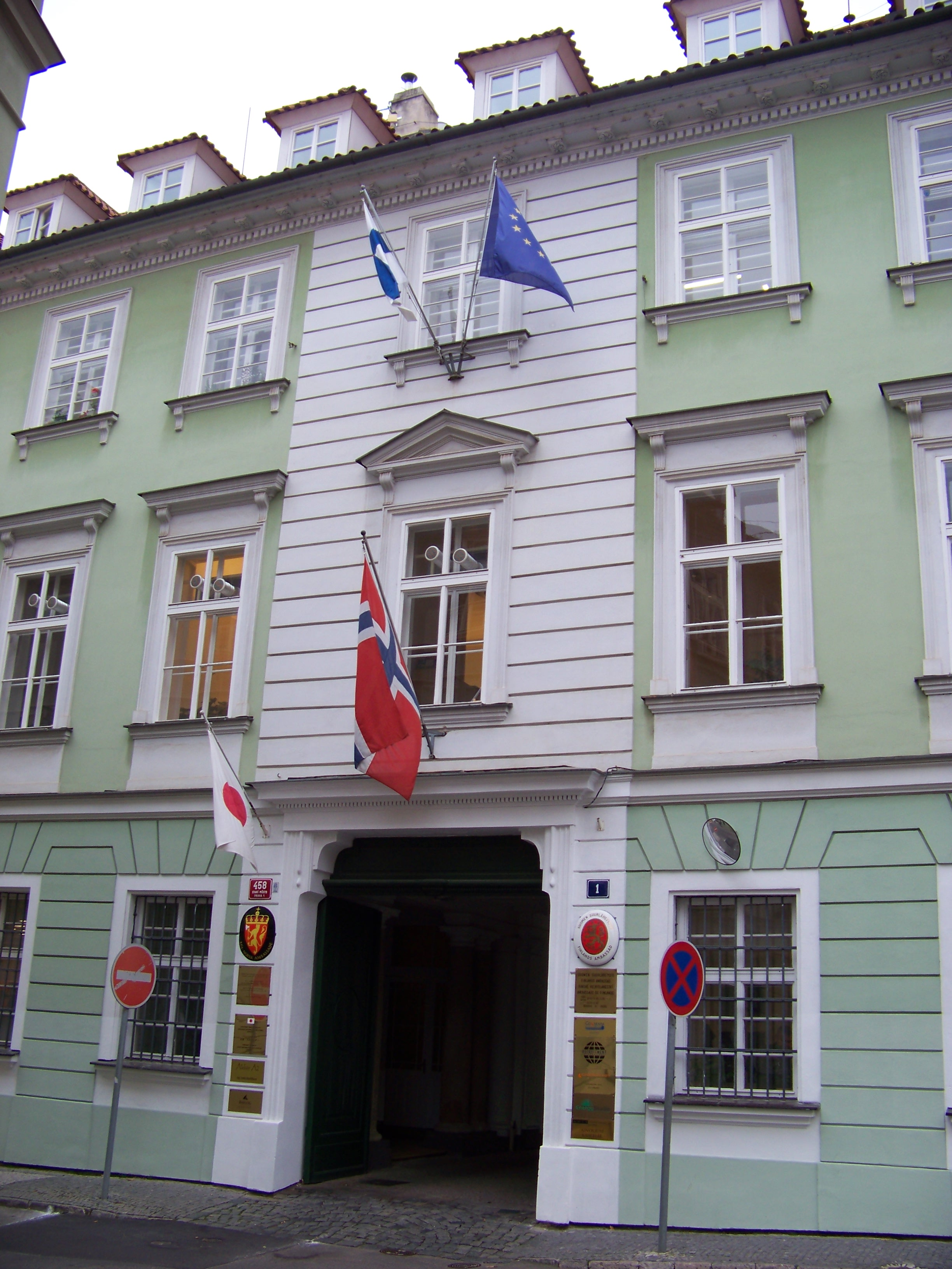 Prague-Malá Strana, the Czech Republic. Hellichova 458/1. - Google Maps - Google Earth